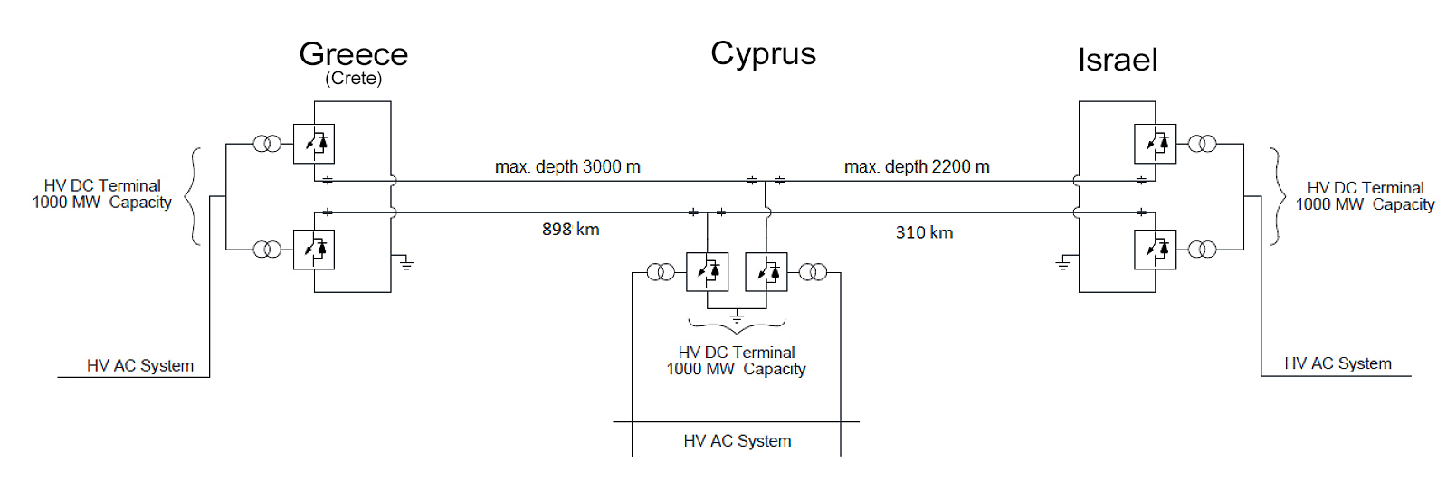 Conceptual diagram of EuroAsia Interconnector (Stage 1)